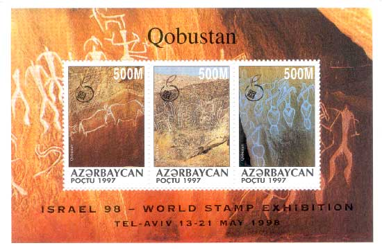 Stamp of Azerbaijan